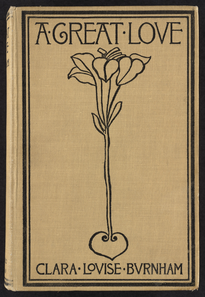 File name: 06_04_000146Title: BURNHAM(1898) A great loveDate issued: 1898Genre: Book coversNotes: Burnham, Clara Louise, 1854-1927 (Author)Collection: Sarah Wyman Whitman BindingsLocation: Boston Public Library, Special CollectionsRights: No known copyright restrictions.